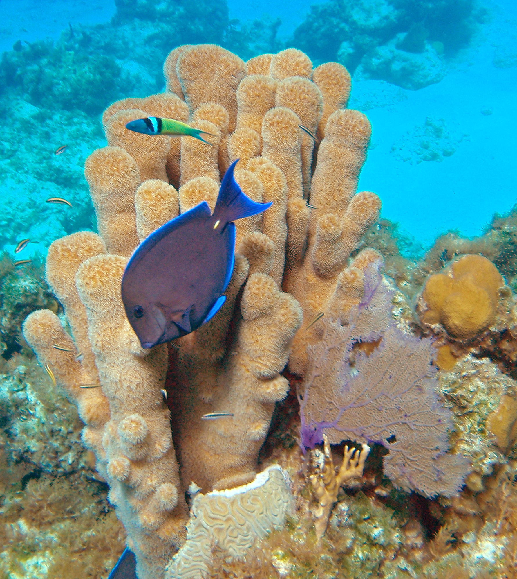 Dendrogyra cylindrus (Ehrenberg, 1834) - pillar coral on a patch reef. (photo taken by Mark Peter) Stony corals have a patchy distribution in the shallow marine waters surrounding San Salvador Island. They occur as isolated individual colonies, in patch reefs, fringing reefs, and barrier reefs. Stony corals are scleractinian anthozoan cnidarians (there are also non-scleractinian stony corals in the fossil record, such as tabulates and rugosans). They consist of individuals or colonies of gelatinous polyps that secrete hard skeletons of aragonite (CaCO3). Most scleractinian corals live in warm, tropical to subtropical, photic zone environments (the shallow portions of the world’s oceans where sunlight penetrates). Microbes (Symbiodinium - Protista, Dinoflagellata/Pyrrhophyta) called zooxanthellae live in their tissues and need to be in sunlight to make their own food (photosynthesis), which is shared with the host coral animal. Scleractinian corals have stinging cells (nematocysts) in their tentacles that paralyze prey. Pillar corals have skeletons of numerous, upright, subcylindrical structures. The large blue fish in the above photo is a blue tang (Acanthurus coeruleus). The small blue-black-white-yellow fish is a bluehead wrasse (Thalassoma bifasciatum). The purplish-colored seafan at lower right is Gorgonia ventalina. The small, light-brown, branching coral below the purple seafan is a branching fire coral (Millepora alcicornis). Classification: Animalia, Cnidaria, Anthozoa, Scleractinia, Meandrinidae Locality: Telephone Pole Reef, Fernandez Bay, offshore western San Salvador Island, eastern Bahamas